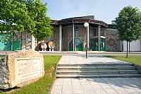 Cider Museum at Nava, Principado de Asturias, Spain